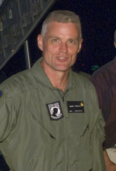 Keith Stansell Full original caption: Keith Stansell, a contractor who was rescued after being held hostage by rebels in Colombia, steps off the ramp of a C-17 Globemaster III onto U.S. soil at Lackland Air Force Base, Texas at 11:31 p.m., July 2. The aircraft is stationed at Travis AFB, Calif., and the crews came from various bases such as Charleston AFB, S.C., and Pope AFB, N.C.